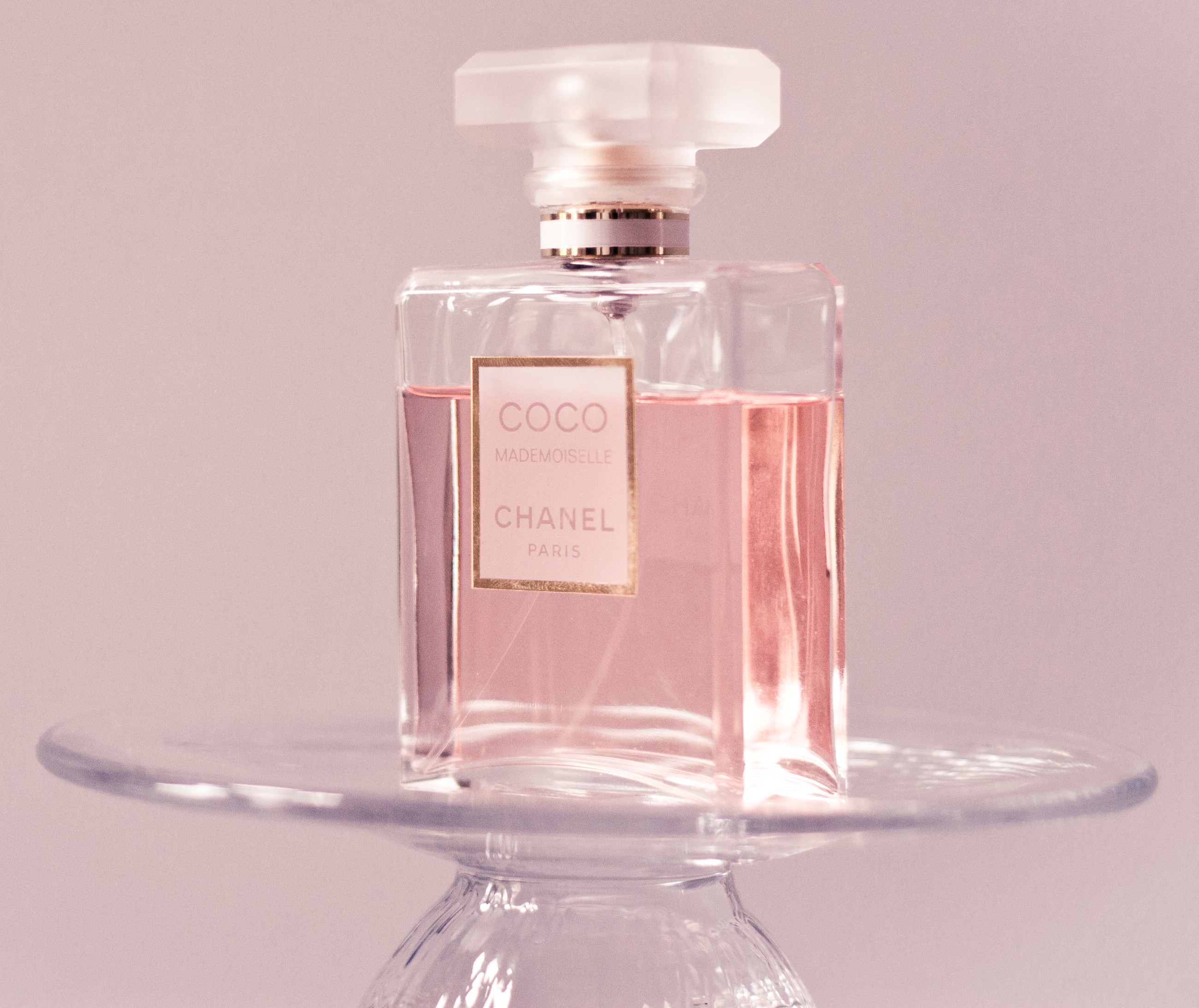 Full resolution image of Coco Mademoiselle perfume by Chanel.